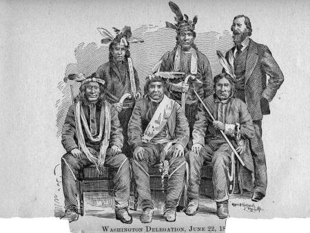 Chippewa Delegation to Washington 1852